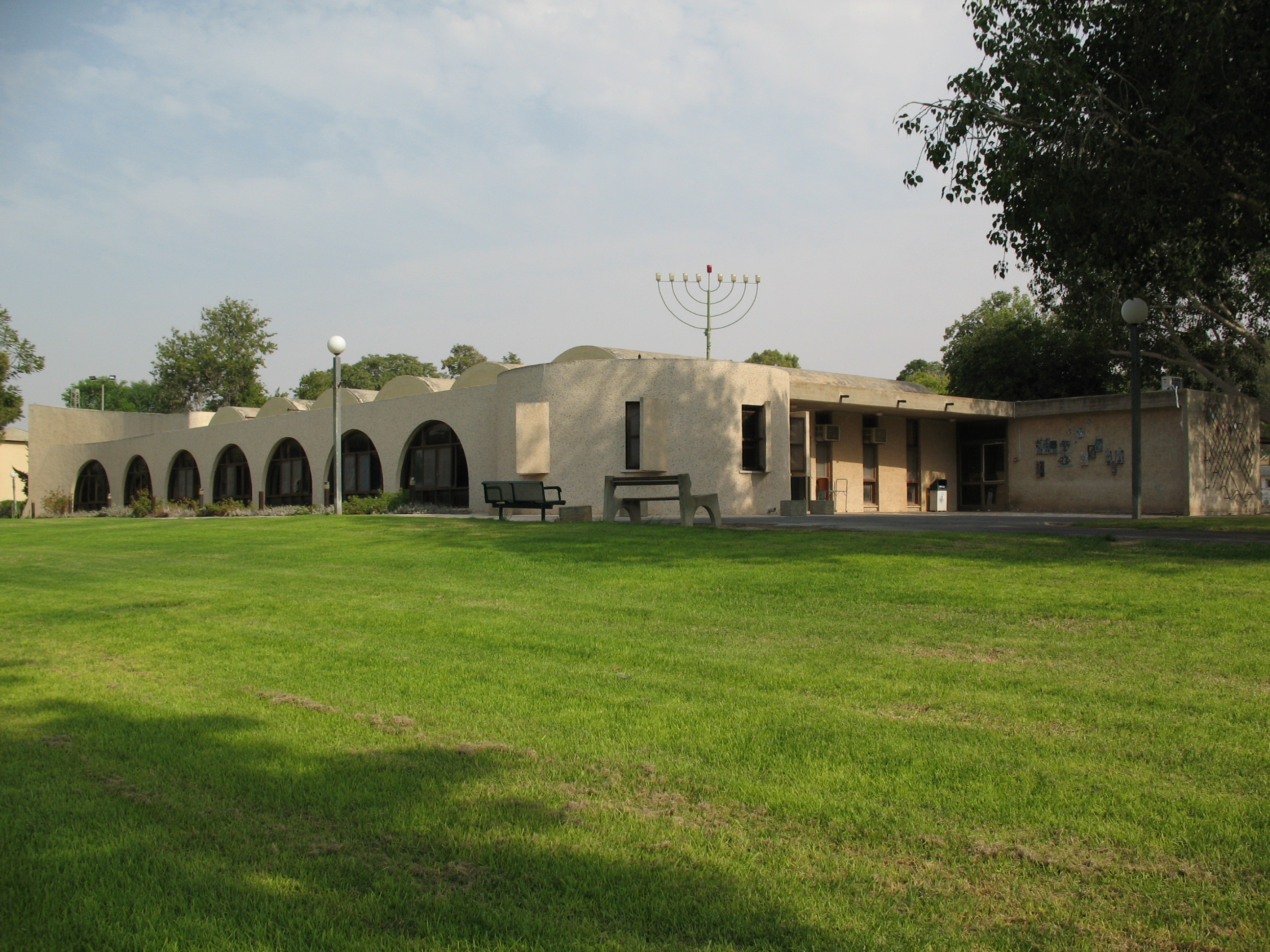 Dining room in kibbutz Ruhama, Israel